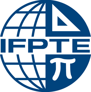 Official IFPTE Logo